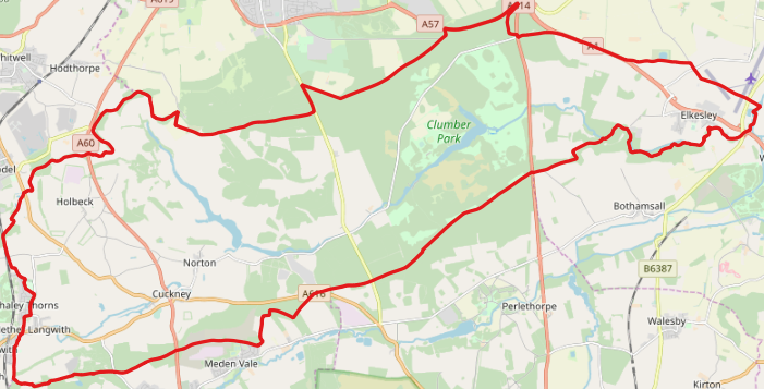 Map of the Welbeck ward of Bassetlaw. This map may be incomplete, and may contain errors. Don't rely solely on it for navigation.